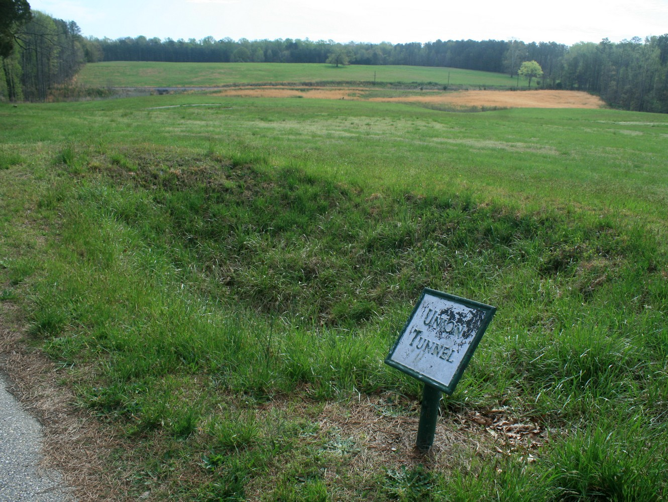 Remains of Union tunnel near the Crater